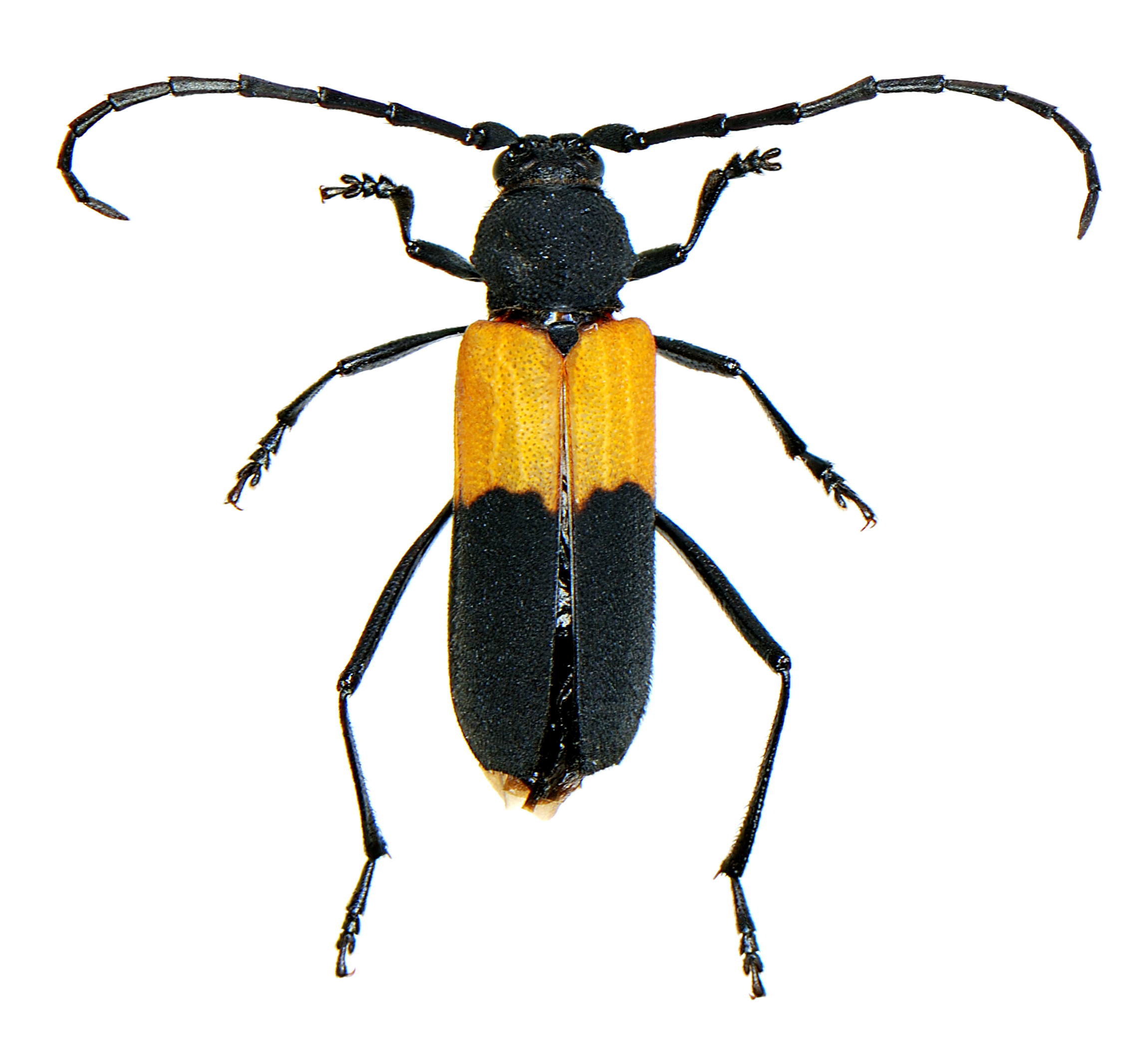 Specimen of Purpuricenus axillaris Haldeman, a longhorn beetle that is attracted to fermenting baits such as molasses. This individual was collected in USA: Connecticut: Middlesex County: Killingworth, when it made the mistake of alighting next to the collector on his deck, 06-Aug-2011; collector M.K. Oliver, in collection of same. Length of this specimen: 14.0 mm from front of head to tip of abdomen.